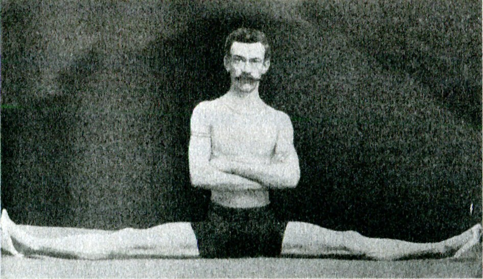 Man sitting in a pose close to Samakonasana in modern postural yoga. Figure 1 from Thomas Dwight's "The Anatomy of a Contortionist", Scribner's Magazine, April 1889, p. 493